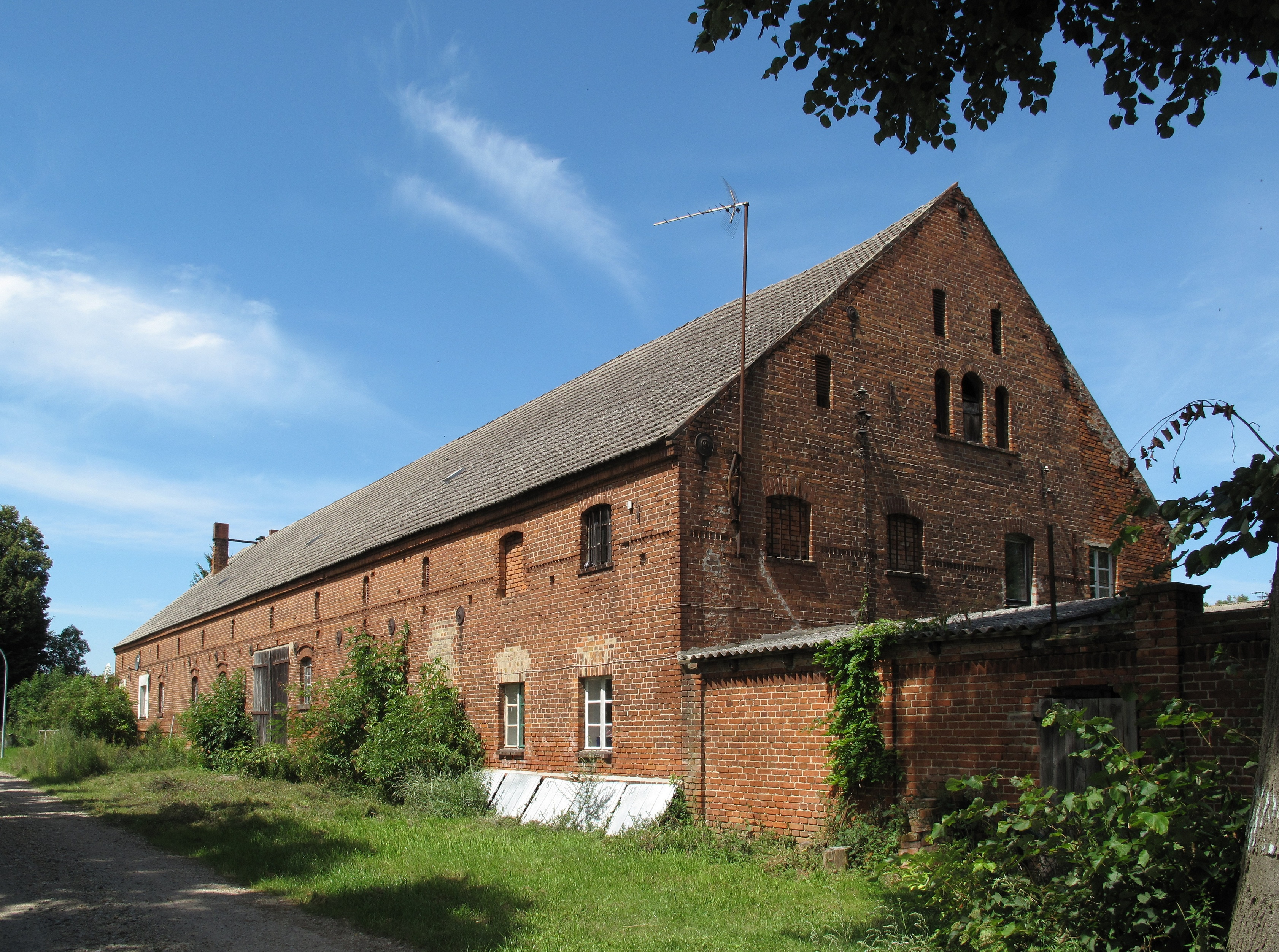 Old farm house in Gottesgabe. Gottesgabe (german for: god's gift) is a part of Altfriedland, a village of the municipality Neuhardenberg in the District Märkisch-Oderland, Brandenburg, Germany. In 1304 Gottesgabe was bought by the Cistercian Nunnery Friedland and was used until the 20th-century as folwark by the following Herrschaft Friedland. In todays village there remind to the old folwark some, mostly dilapidated farm annexes and barns as well as rail profils; some buildings have been restored.